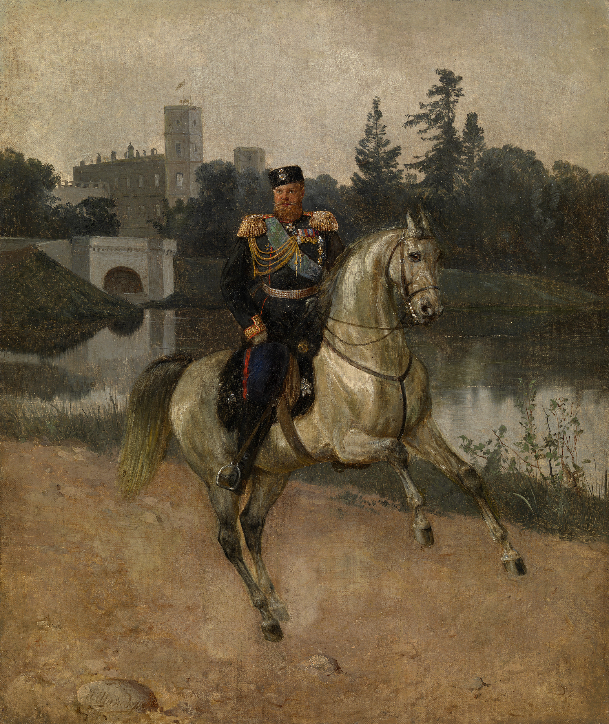 Portrait of Alexander III on Horseback at Gatchina